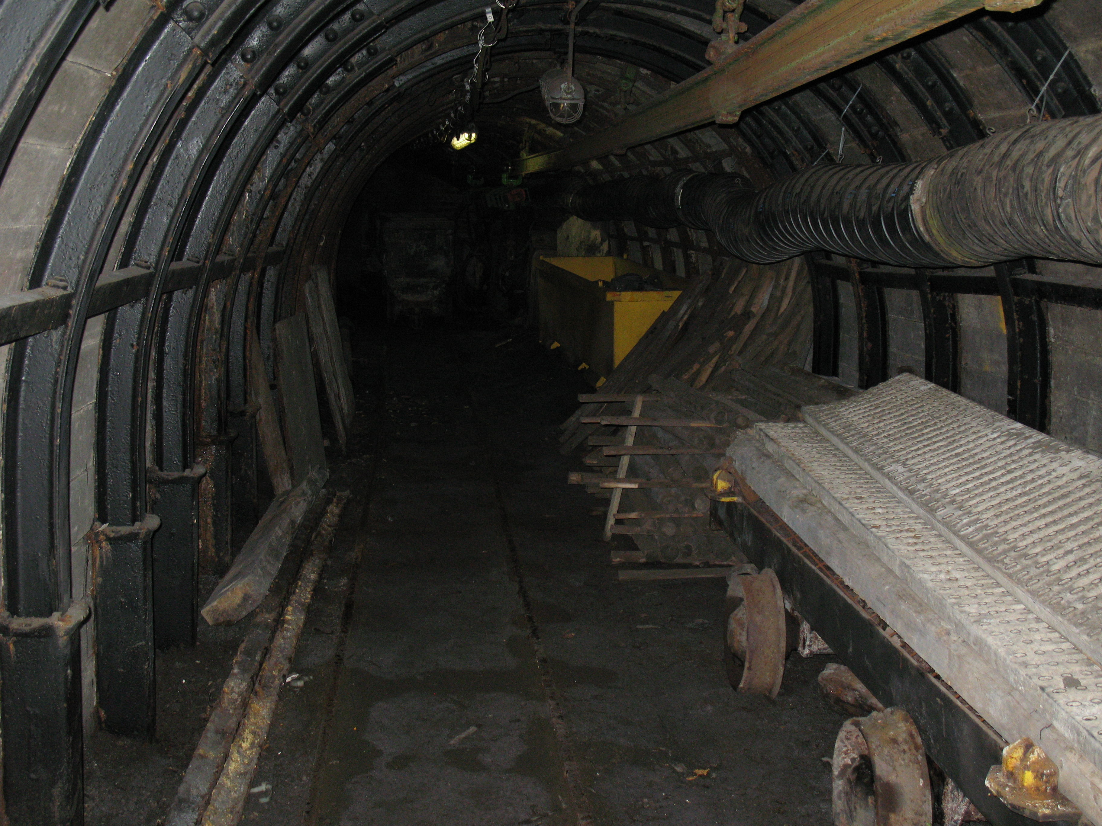 German Mining Museum in Bochum